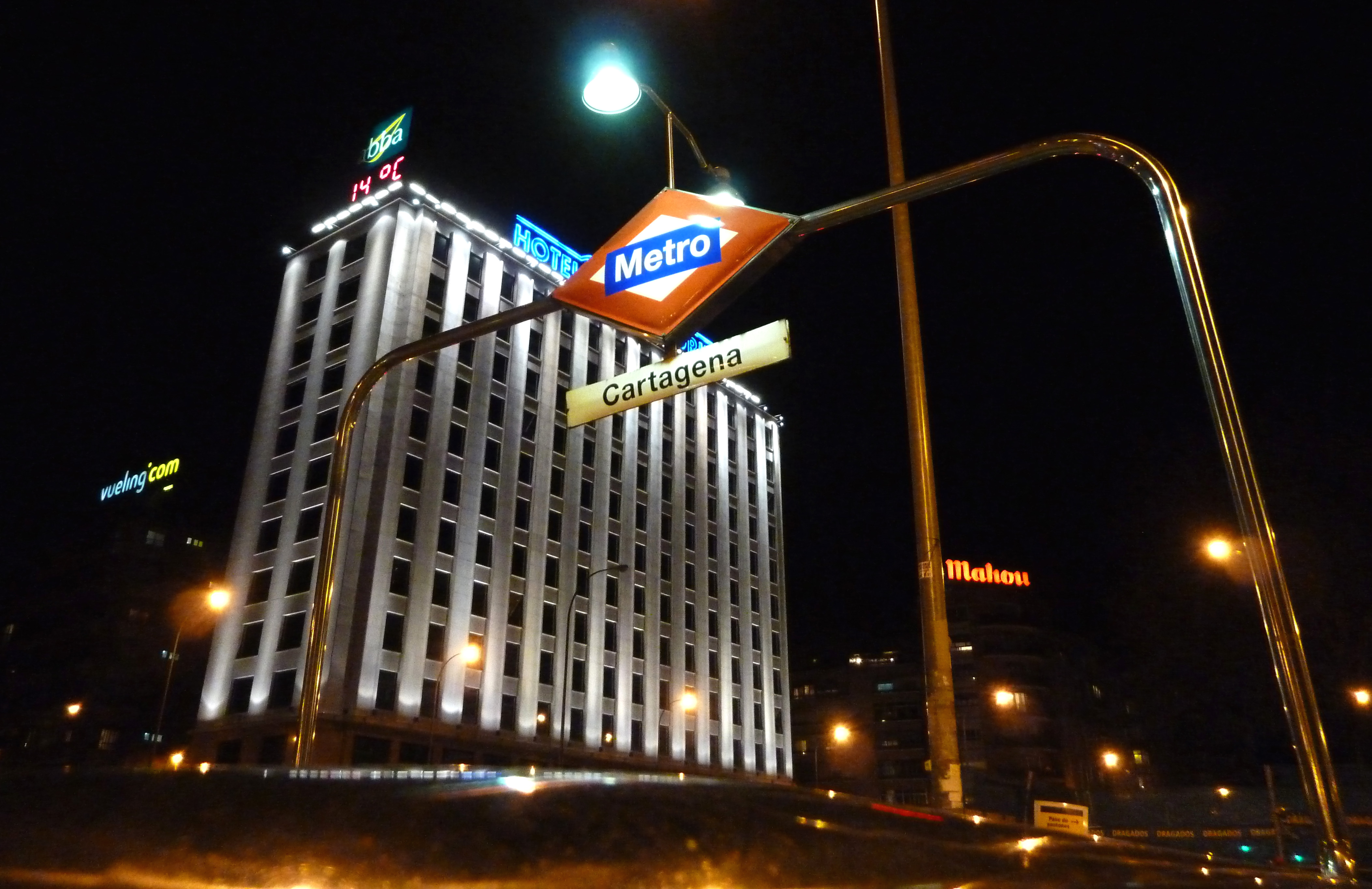 Entrance of Cartagena metro station in Madrid (Spain), at 37 Avenida de América (an avenue).